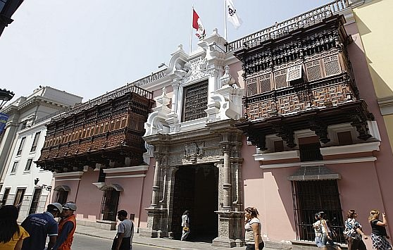 Torre Tagle Palace, Lima